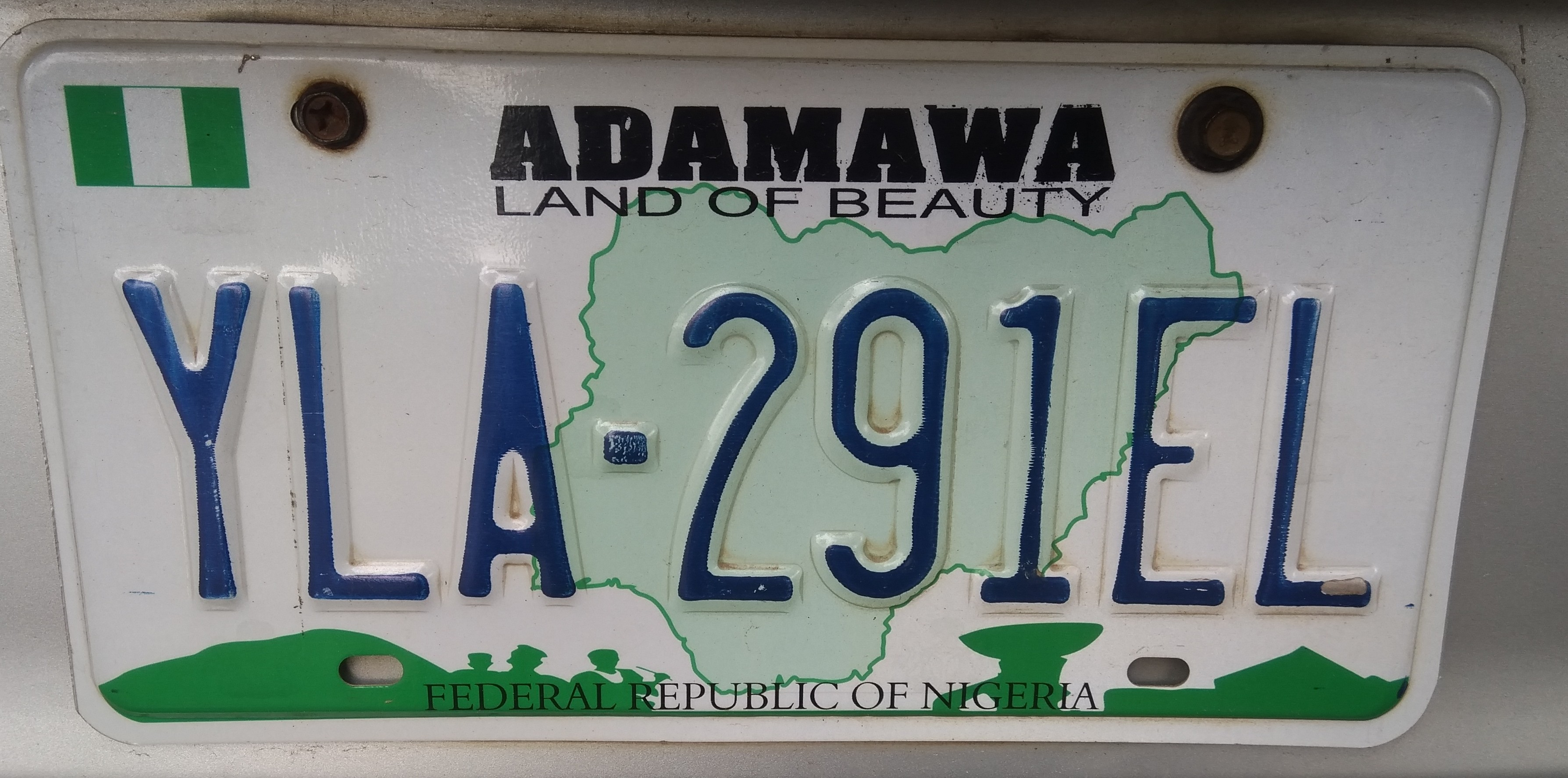 Nigerian number plate Adamawa State